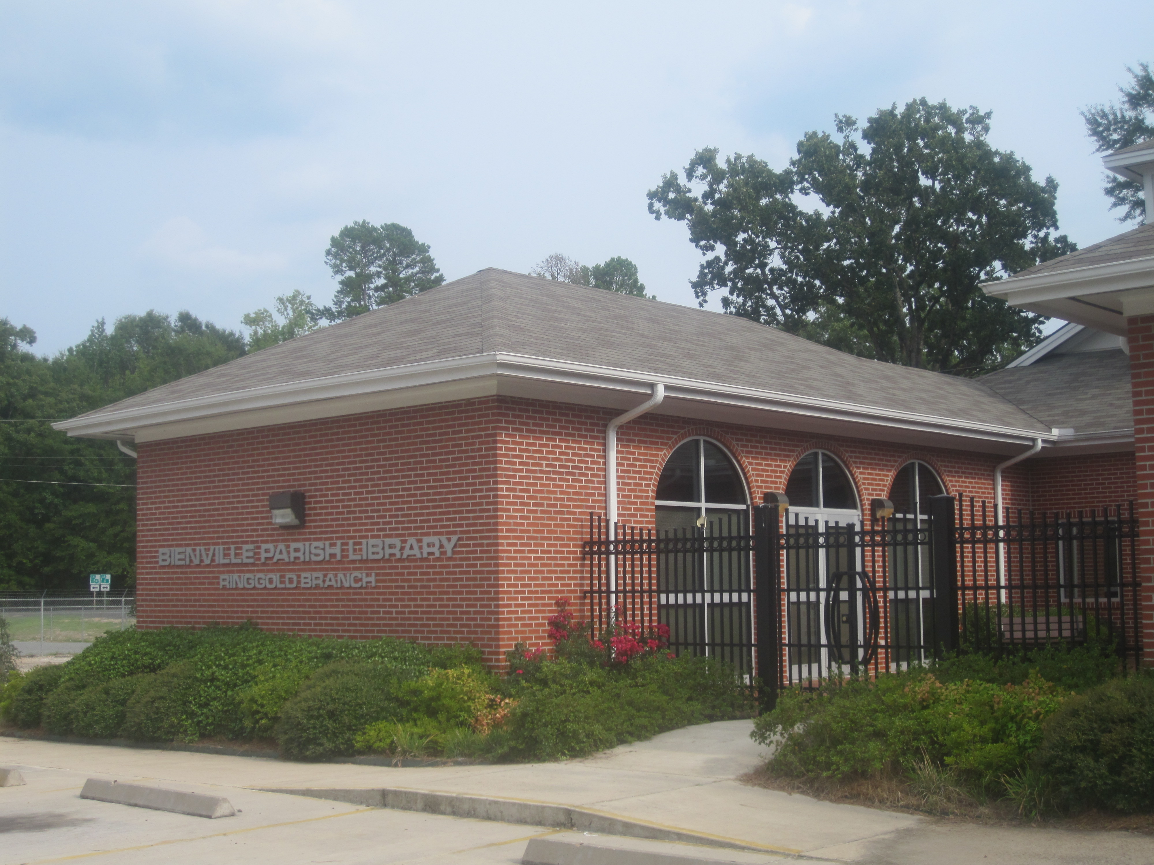 Bienville Parish Library, Ringgold branch